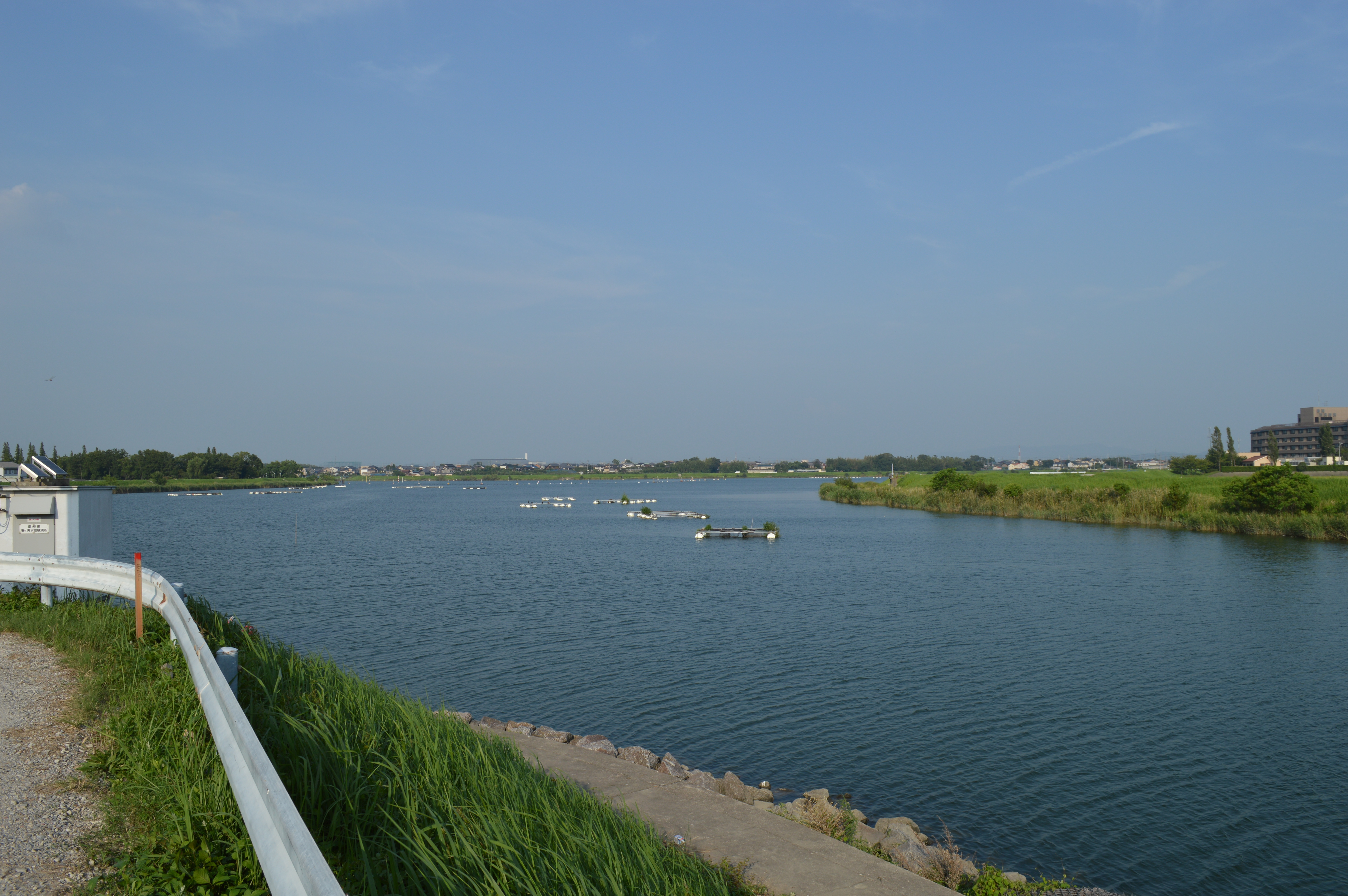 The Aburagafuchi lake in Aichi Prfeecture, Japan